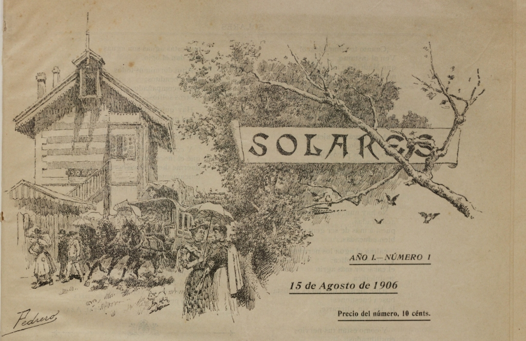 estación Solares, portada revista Solares, 15.8.1906, dibujo por Mariano Pedrero, colección BMS